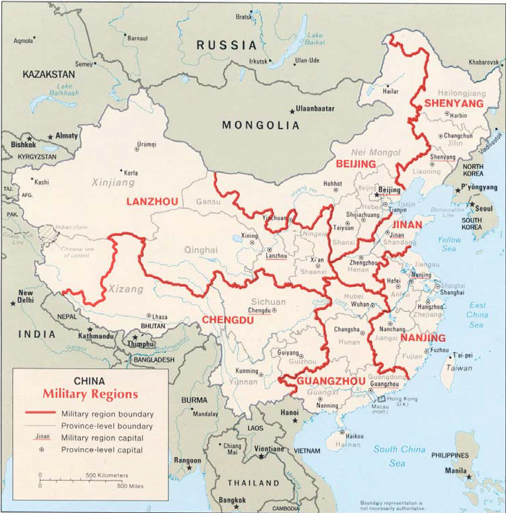 Figure 1. Map: China’s Military Regions. (Uploader's note: appears to be an older map, Hong Kong is still listed as a UK dependency. )